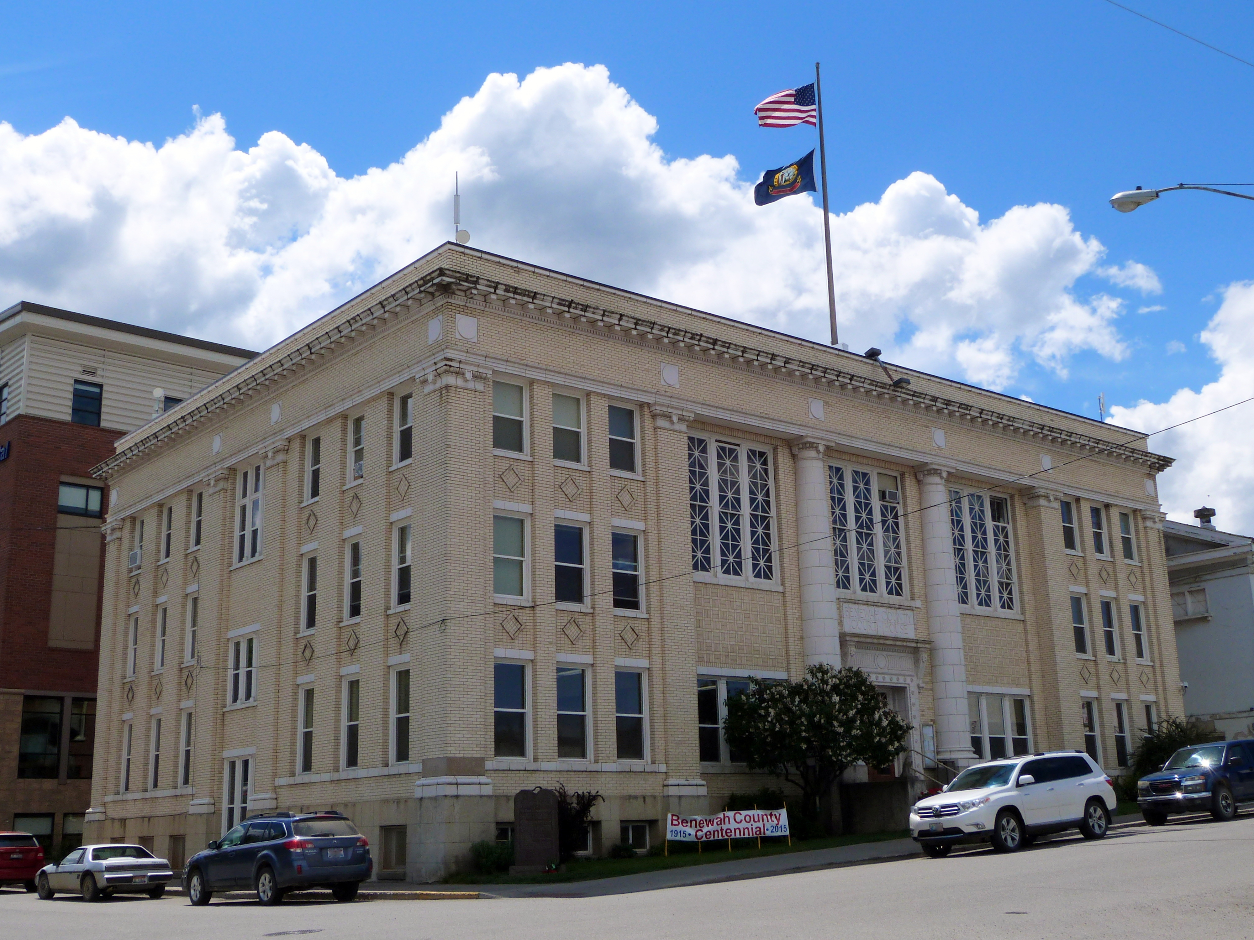 The historic Benewah County Courthouse (built 1924), located at the intersection of College Avenue and 7th Street in St. Maries, Idaho, United States, is listed on the US National Register of Historic Places.